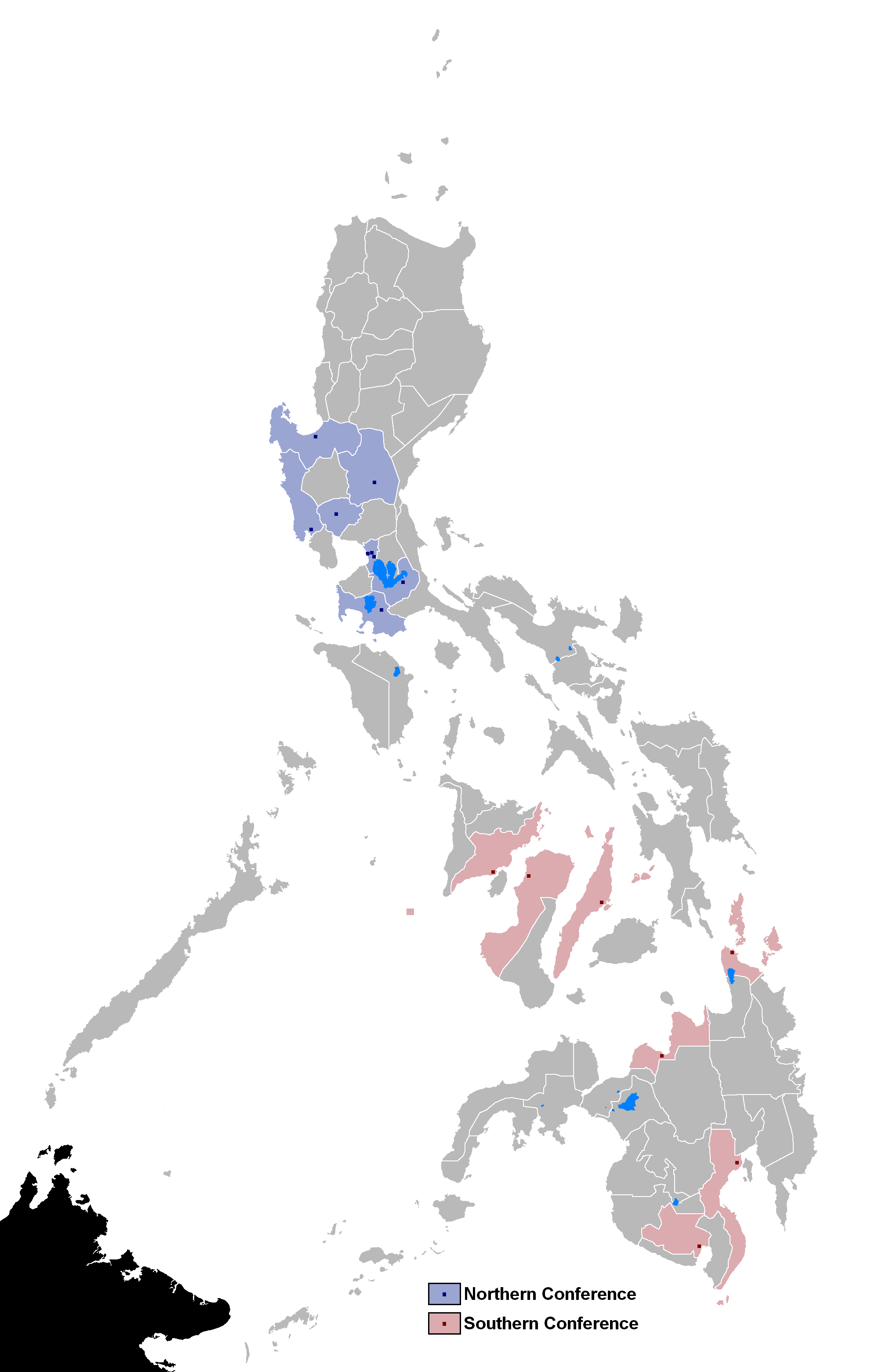 Teams of the Metropolitan Basketball Association.